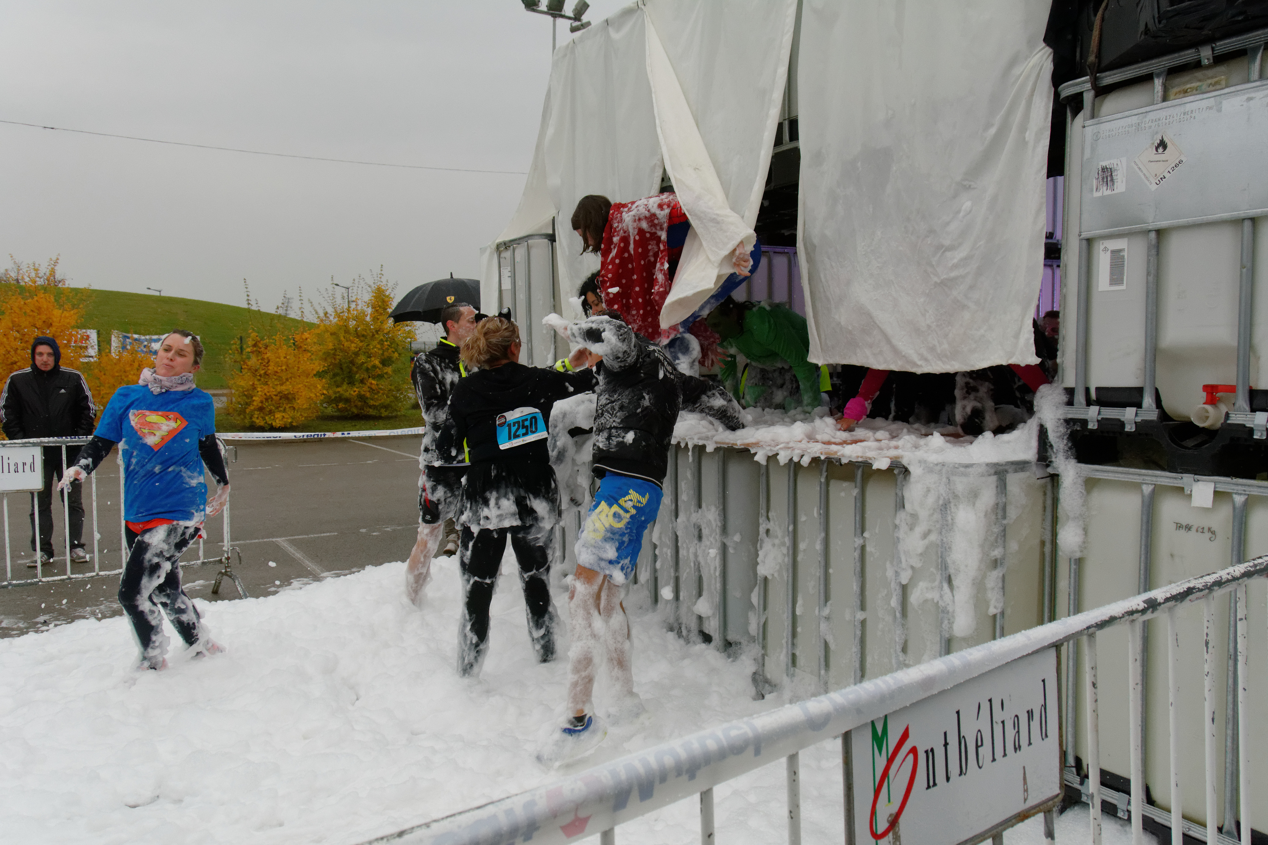 Personality rights warningAlthough this work is freely licensed or in the public domain, the person(s) shown may have rights that legally restrict certain re-uses unless those depicted consent to such uses. In these cases, a model release or other evidence of consent could protect you from infringement claims.